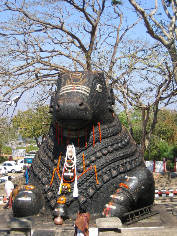 Nandi, Shiva's vehicle, on Chamundi hills